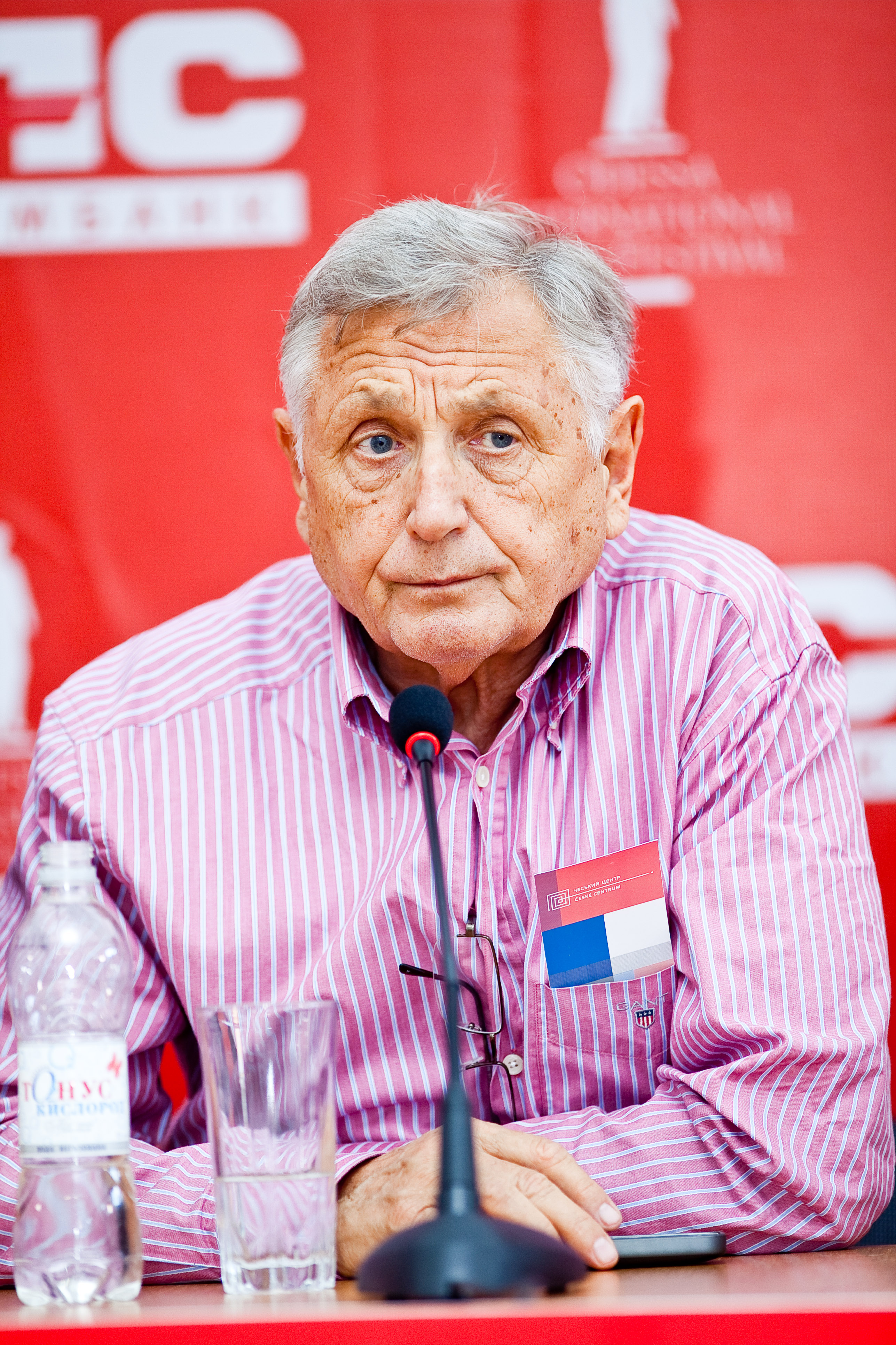 Director Jiří Menzel on the press conference of Odessa International Film Festival, July 2013